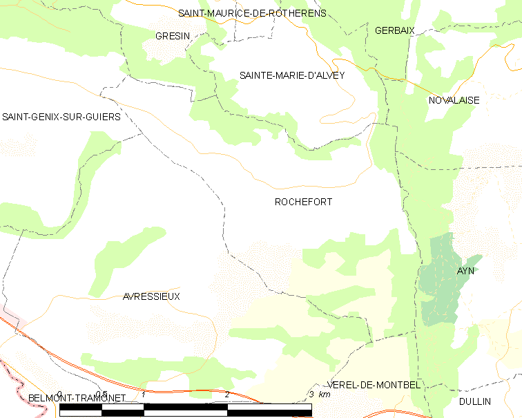 Map of French municipality